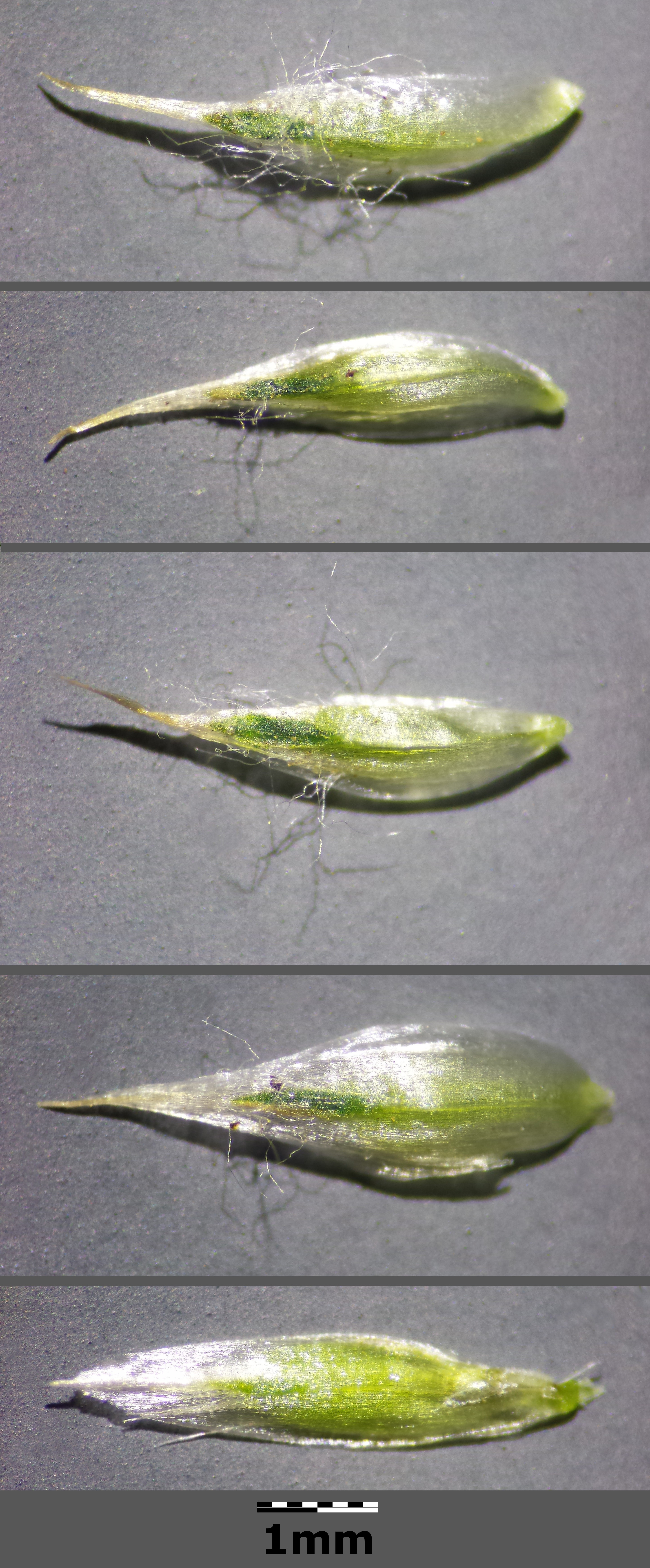 Flower head leaves: at the top outer ones, below inner ones Taxonym: Filago vulgaris ss Fischer et al. EfÖLS 2008 ISBN 978-3-85474-187-9 Location: near Alte Schanzen, Floridsdorf, Vienna - ca. 225 m a.s.l. Habitat: wine yard